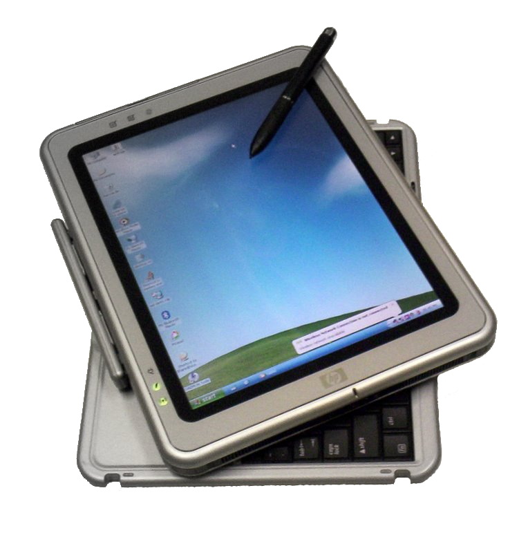 Photo of HP Tablet PC running MS Windows Tablet Edition. Modified with Picasa2.